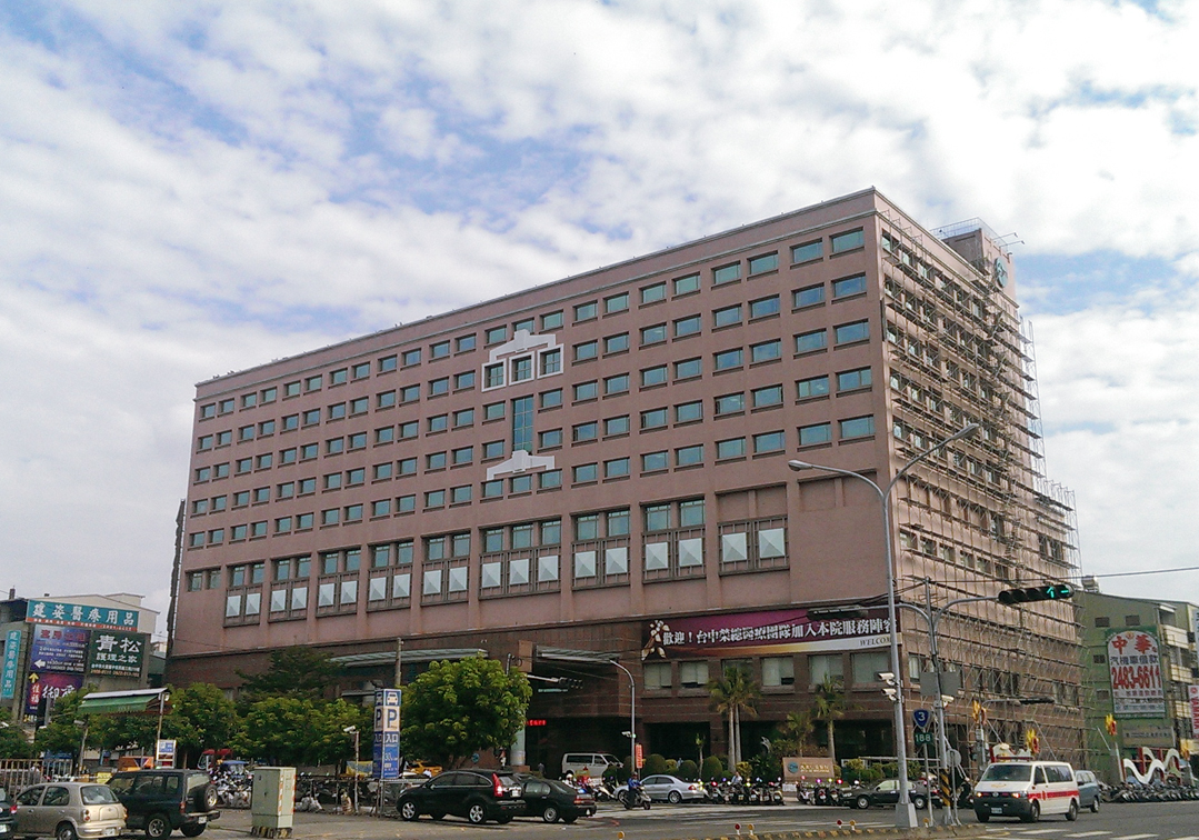 Jen-Ai Hospital中文（台灣）: 大里仁愛醫院